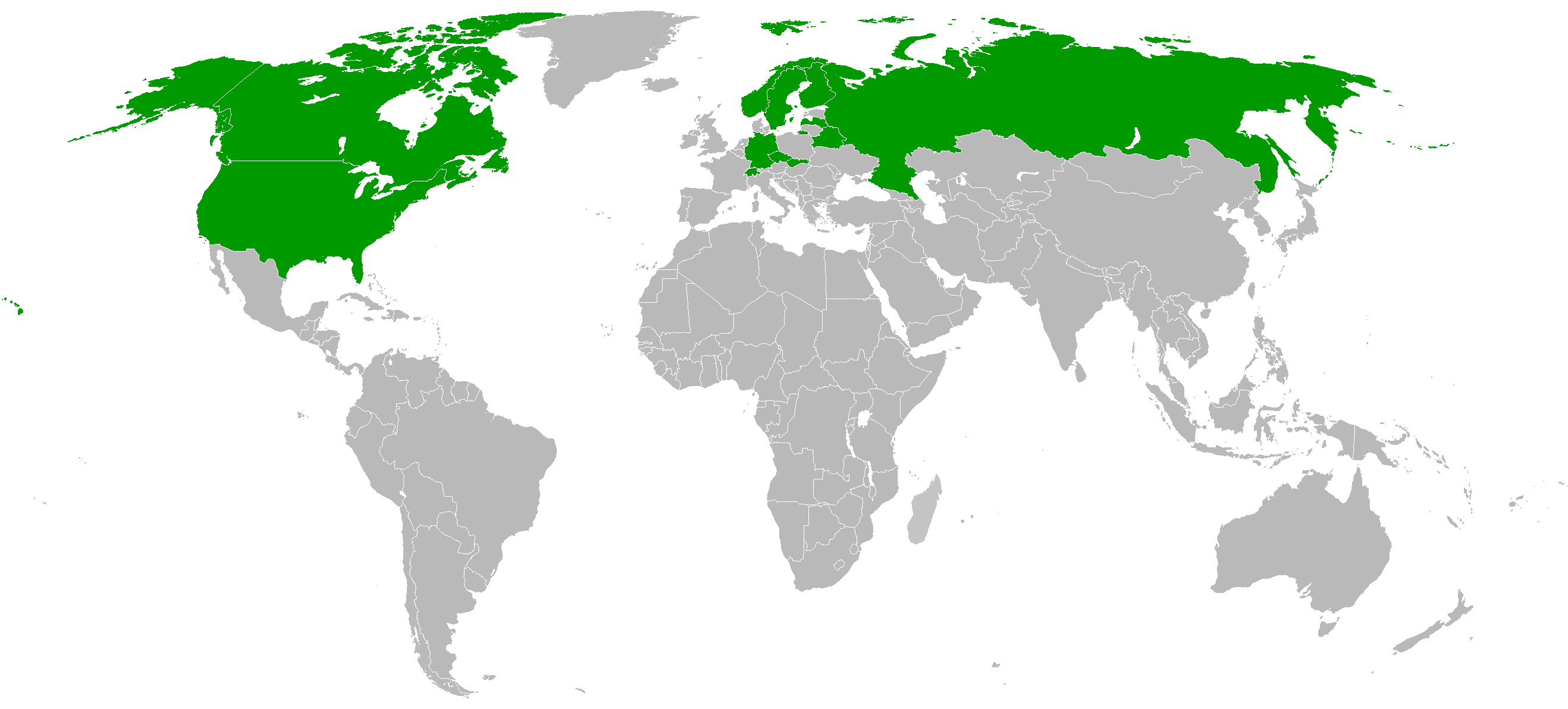 Participants - Ice hockey at the 2010 Winter Olympics – Men's tournament.